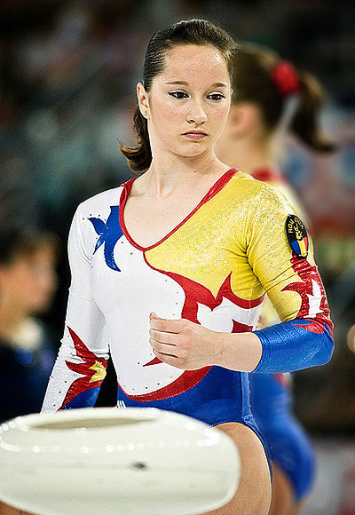 Steliana Nistor (b. 1989) at the Mediterraneo Gym Cup July 5th 2008 in Rome